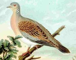 Turtle_Dove